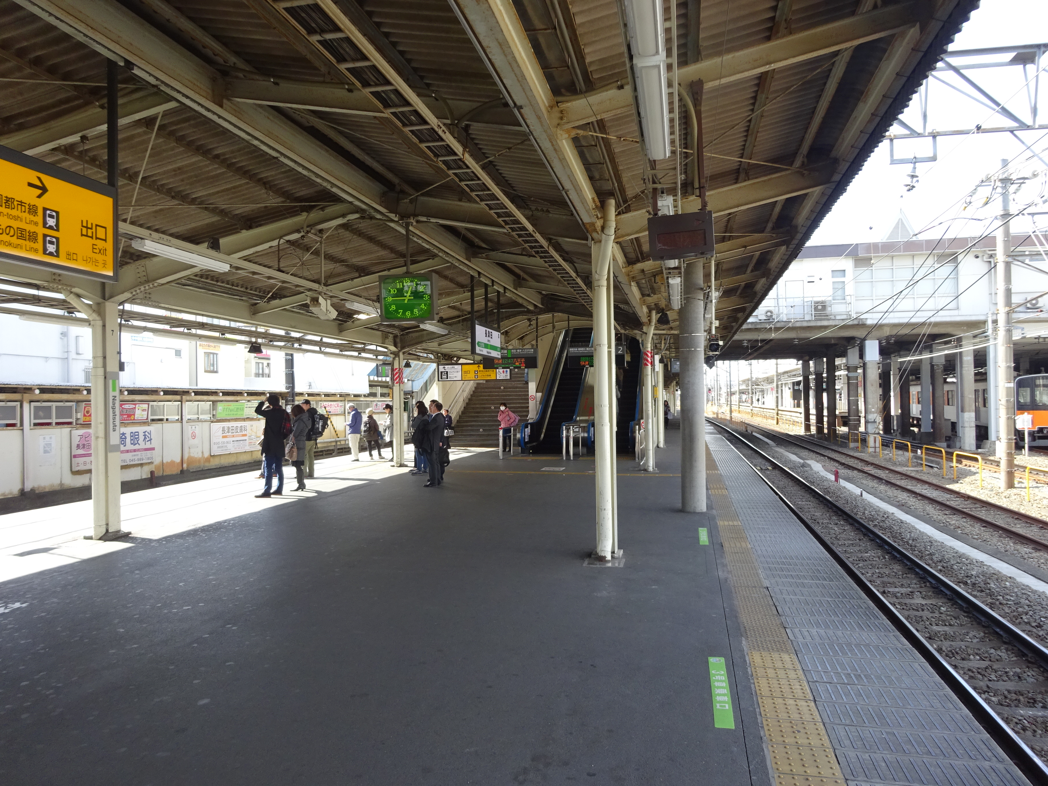 Platforms of Nagatsuta Station(JR)